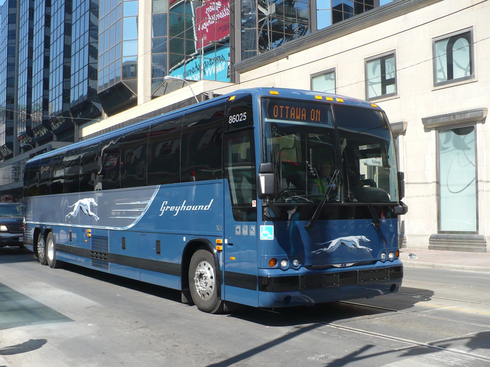 Dallas based Greyhound bus in 2009 livery on Dundas Street in downtown Toronto